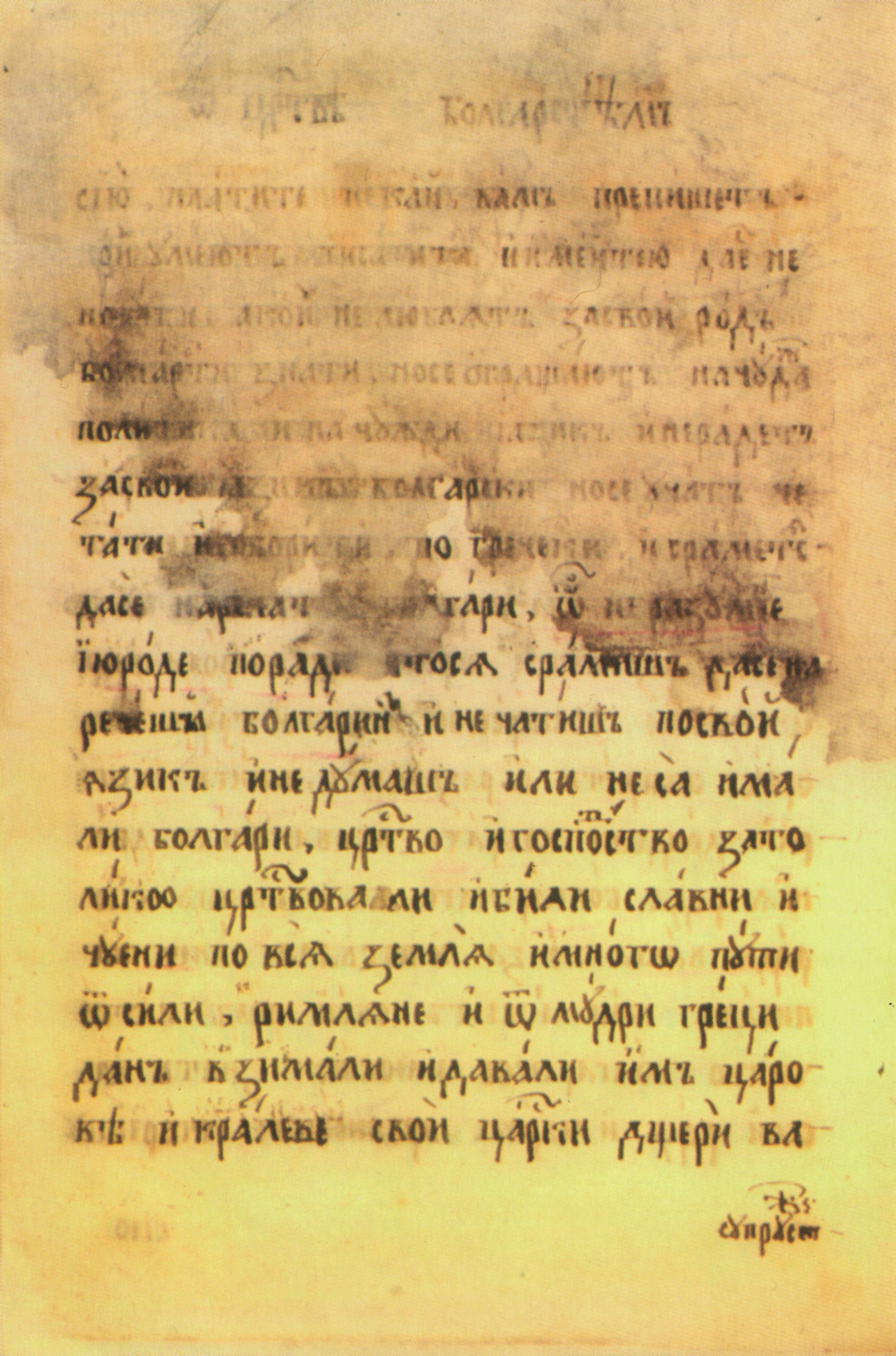 A page of the fair copy of the "Istoriya Slavyanobolgarskaya" (Slavonic-Bulgarian History) by Paisius of Hilendar, made from the original manuscript of Paisius. Now in the National Museum of History in Sofia.